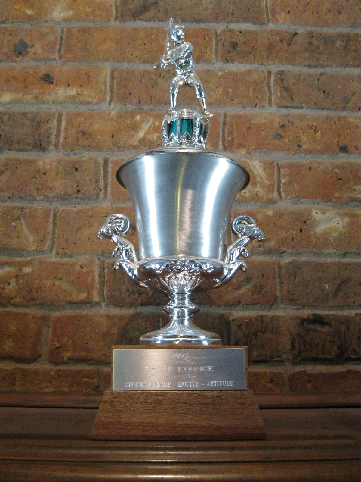 Original photograph of a Blue Darter Trophy, taken with the permission of the owner/recipient (Tyler Koonce). Blue Darter Trophies are awarded every year to youth baseball and softball players in the city of Lee's Summit, Missouri, USA.